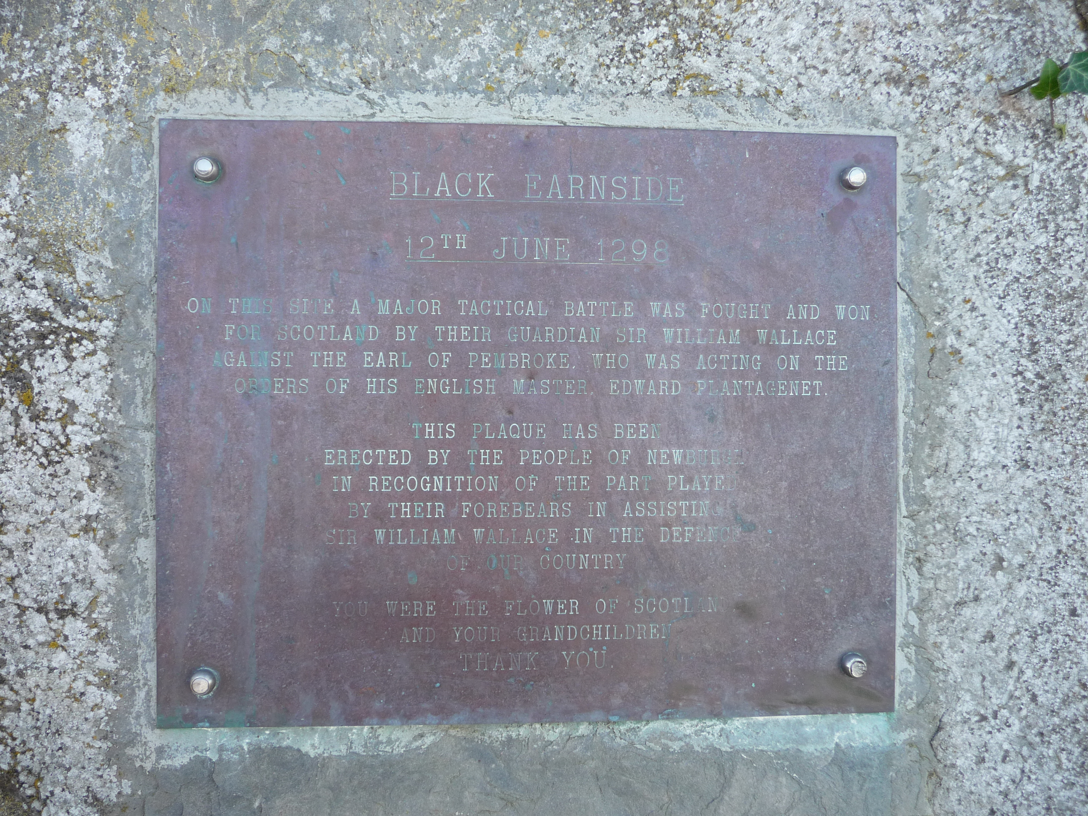 Plaque in laby-by at NO 26298 19407, 2½ miles NE of Newburgh, Fife, commemorating 'Black Earnside'